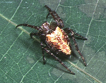 female Eriophora sagana from Okinawa.